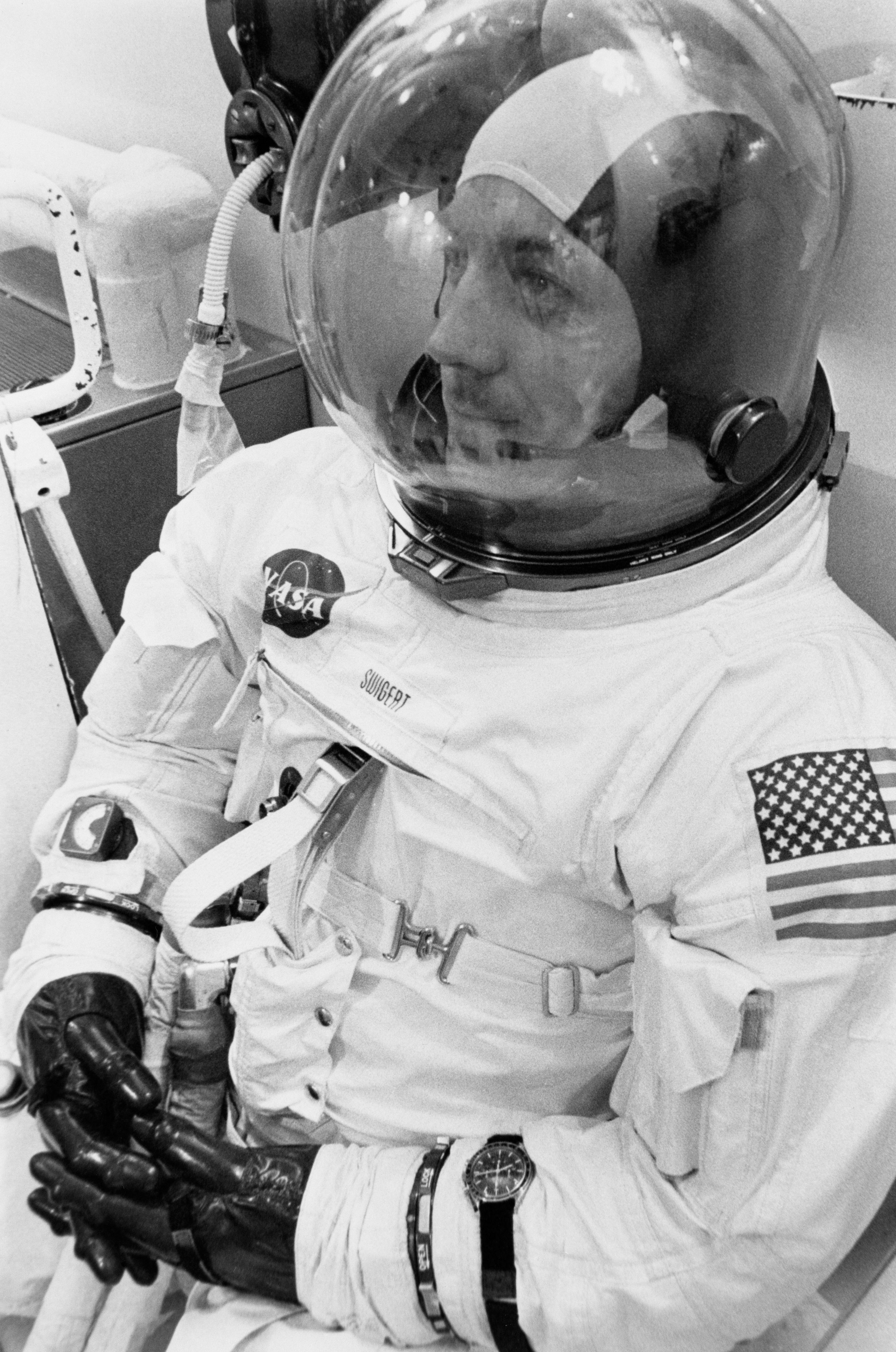 Jack Swigert sits in a pristine space suit prior to the launch of Apollo 13. Photo dated 8 April 1970. Scan by Ed Hengeveld.